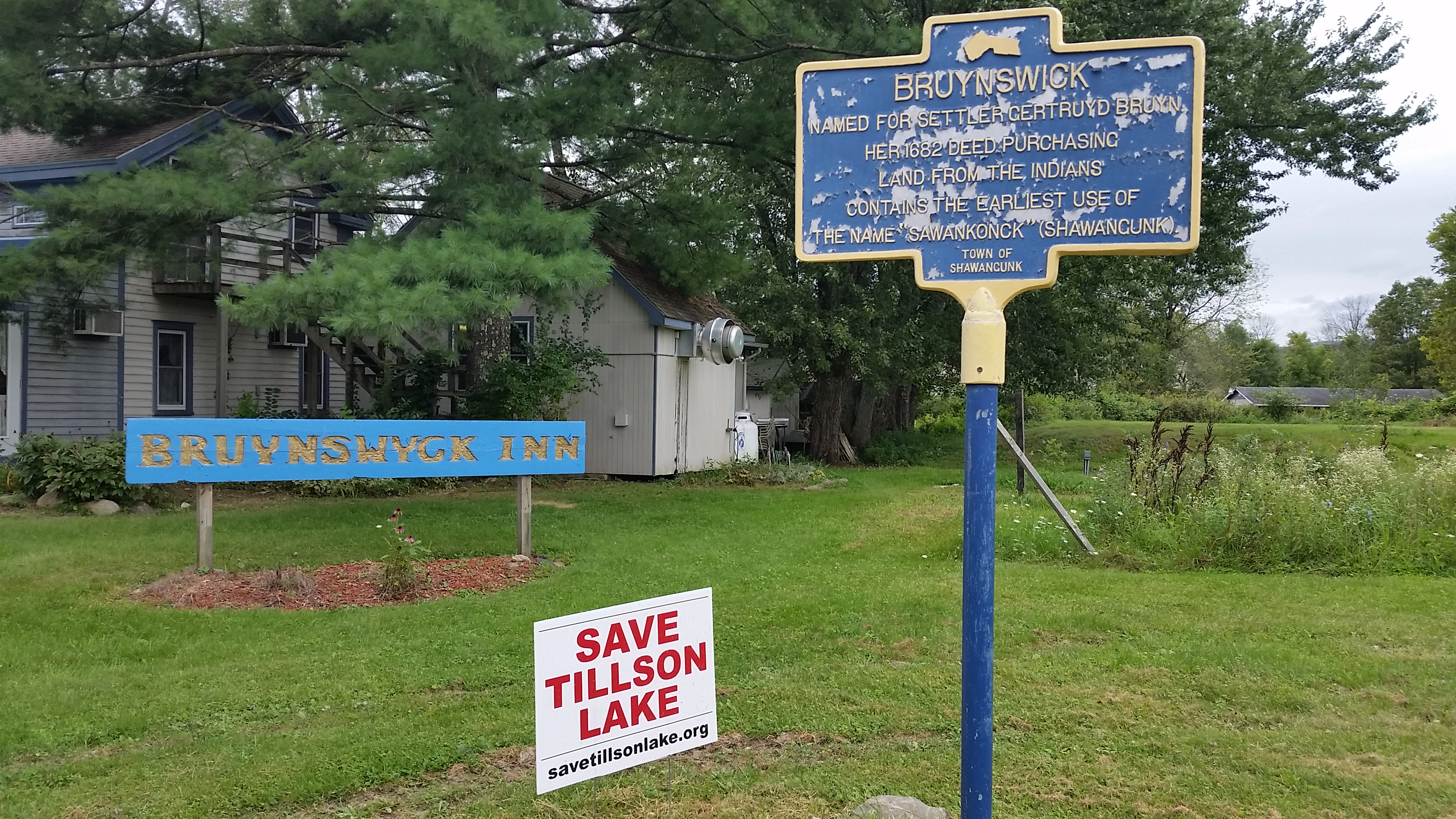 New York state historical marker for Brunswick, New York (landscape view)